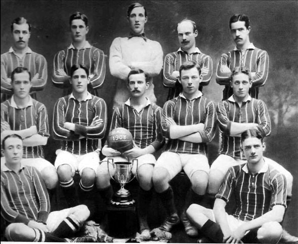 Argentine football team Belgrano Athletic Club that won the Primera División championship in 1908, posing with the "Copa Campeonato" trophy awarded. Fltr (up): G.C. East, G.G. Stocks, C. Lester, H. Ratcliff, J.H. Wood; (middle): J. Pena (Uruguayan player, from CURCC), U. Fernández, A.H. Forrester, G.H. Whaley, A.L. Morgan; (down): F.S. Dickinson, M. Murphy.